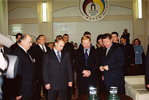 "KHARKOV. President Putin with Ukrainian President Leonid Kuchma during the visit to the Kharkov State Aviation Enterprise."